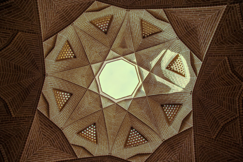 میبد عکس: امیررضا توسلی